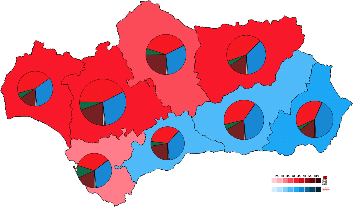 Provincial results for the Andalusian parliamentary election, 1994.